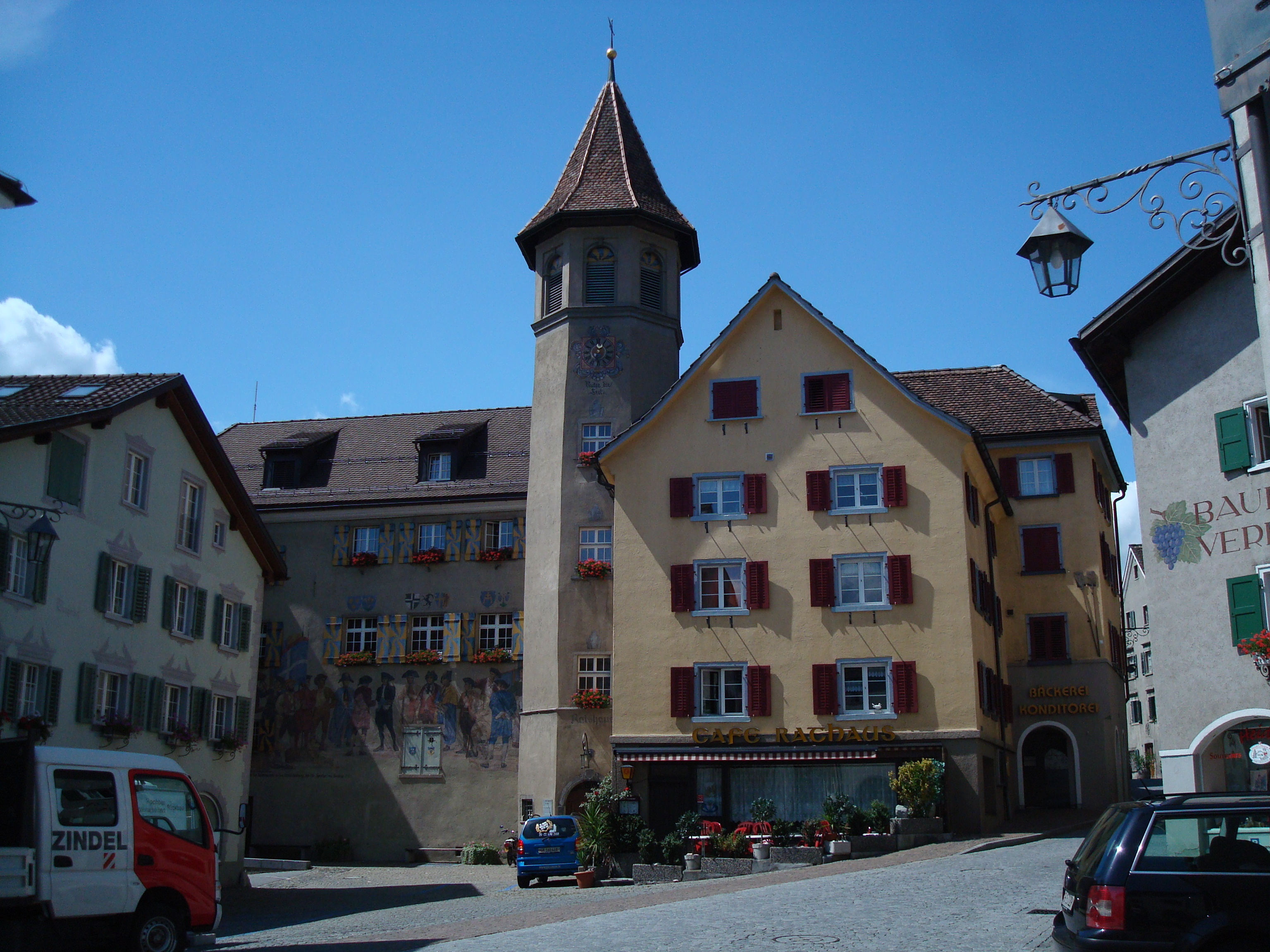 Maienfeld, Kanton Graubünden, Switzerland